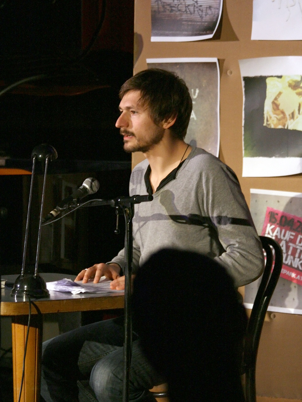 LiteraPop - music and literature: Violetta Parisini (voc., p.) and Fabian Burstein (author of Statusmeldung), Casino Baumgarten in Vienna.